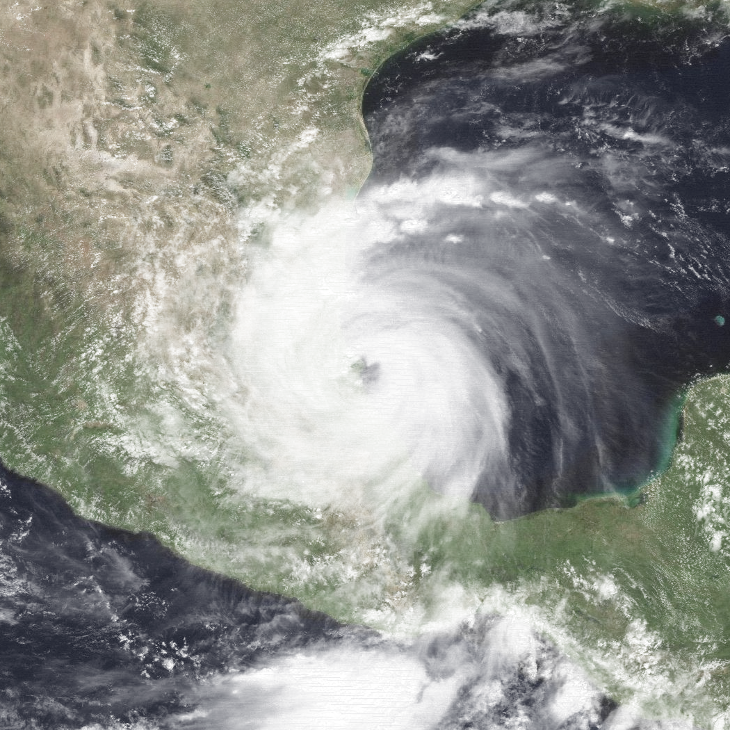 Hurricane Gert at peak intensity near landfall in Mexico on September 20, 1993